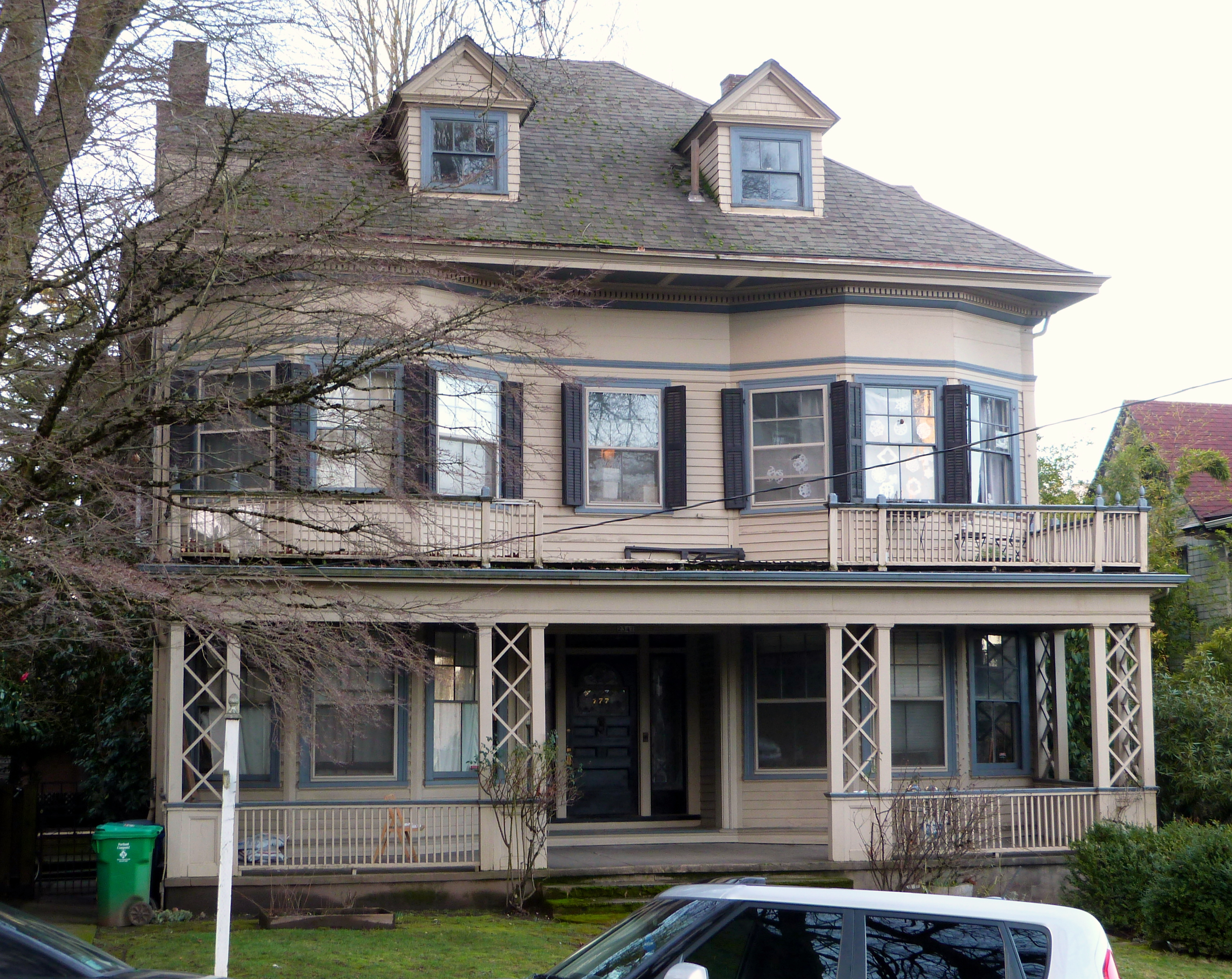 The historic Trevett–Nunn House (built 1891), located at 2347–2349 Northwest Flanders Street in Portland, Oregon, United States, is listed on the US National Register of Historic Places. It is additionally listed as a contributing resource in the National Register-listed Alphabet Historic District.